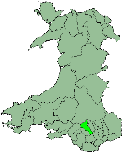 Wales- Cynon Valley District in 1974